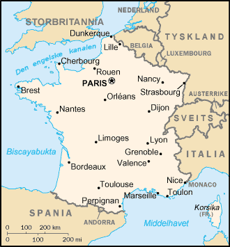 CIA map of France with Norwegian Nynorsk caption